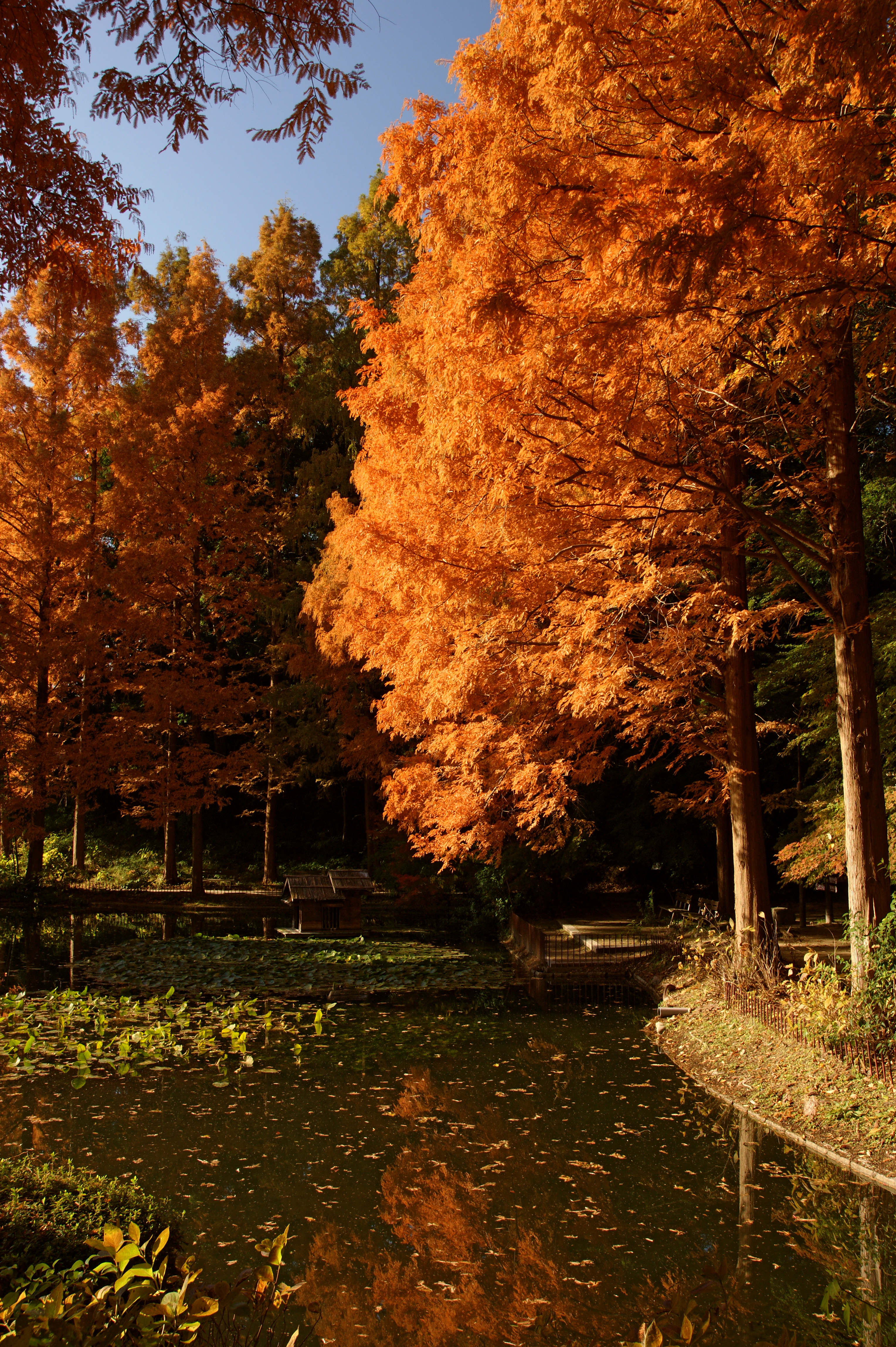 Suma Rikyu Park, Kobe, Hyogo prefecture, Japan